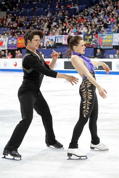 Tessa Virtue and Scott Moir at the 2017 World Championships